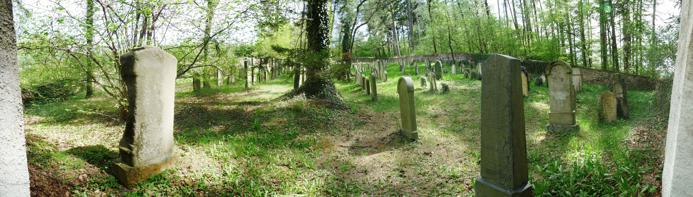 Jewish cemetery in Strážov, Klatovy District, Czech Republic